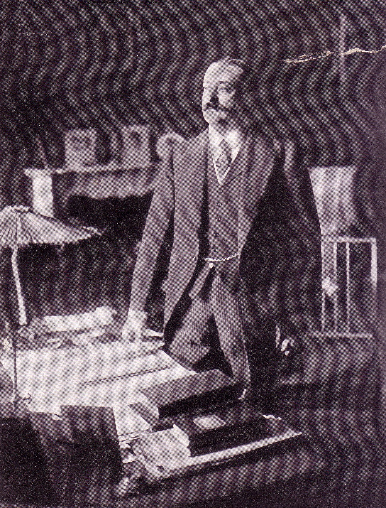 Friedrich Graf Szapáry von Muraszombath, Széchysziget und Szapár // «Stolitsa i Usad'ba» Magazine, 1914, №?, p.13. «Austrian Embassy in St Petersburg» article.